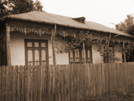 A typical house from the interwar period from Bordei Verde commune, Brăila County, România.